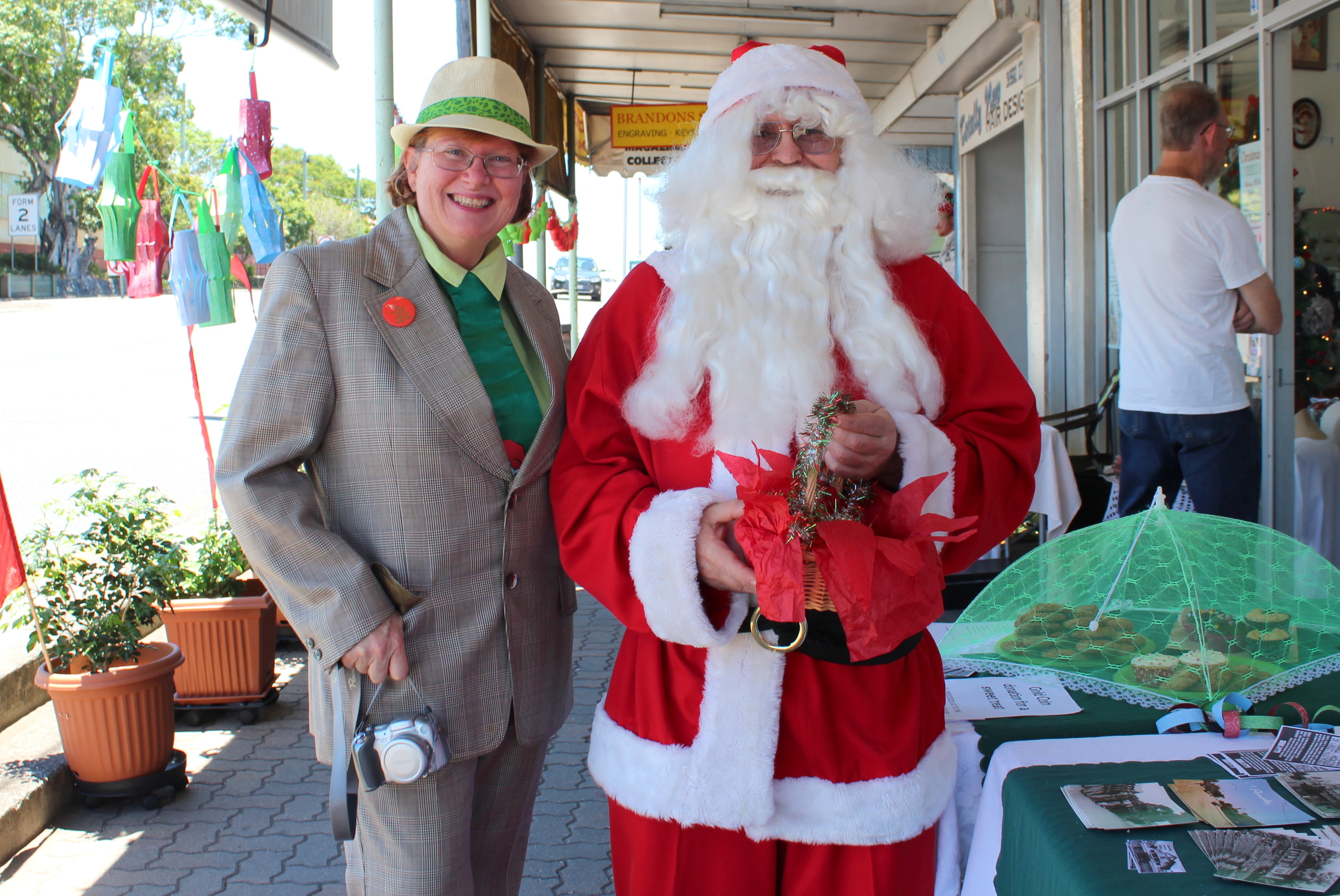 Trevor and Francis Brandon from Brandon's shoes dressed as Santa Claus and a 70's gent.